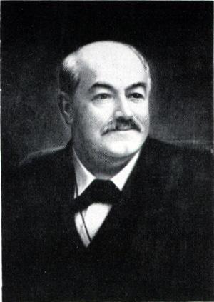 . Scan from